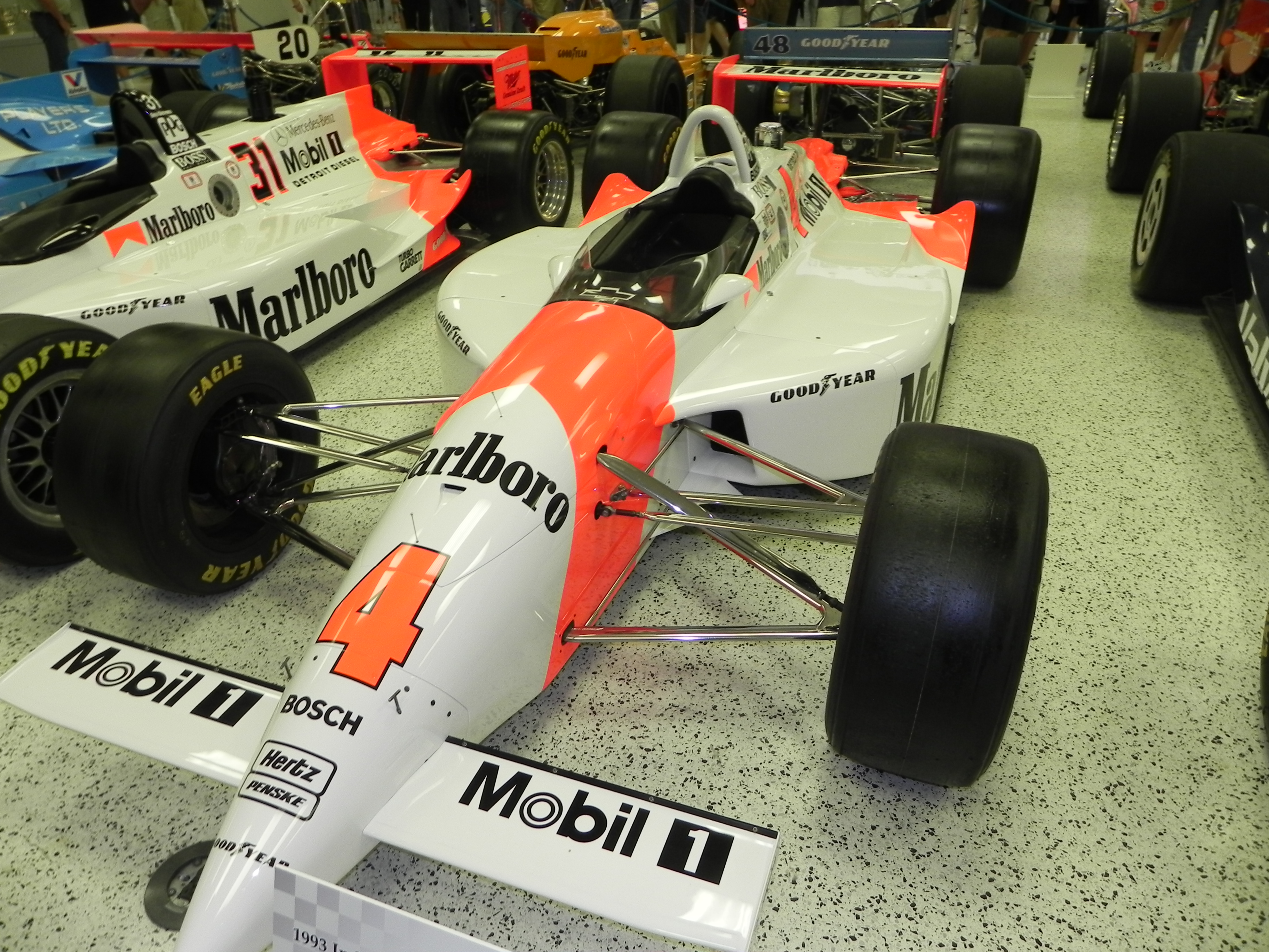 Image of the winning car of the 1993 Indianapolis 500 (Emerson Fittipaldi). Photo was taken at the Indianapolis Motor Speedway Hall of Fame Museum, during the month of May 2011, at the 100th Anniversary "Ultimate Indianapolis 500 Winning Car Collection."